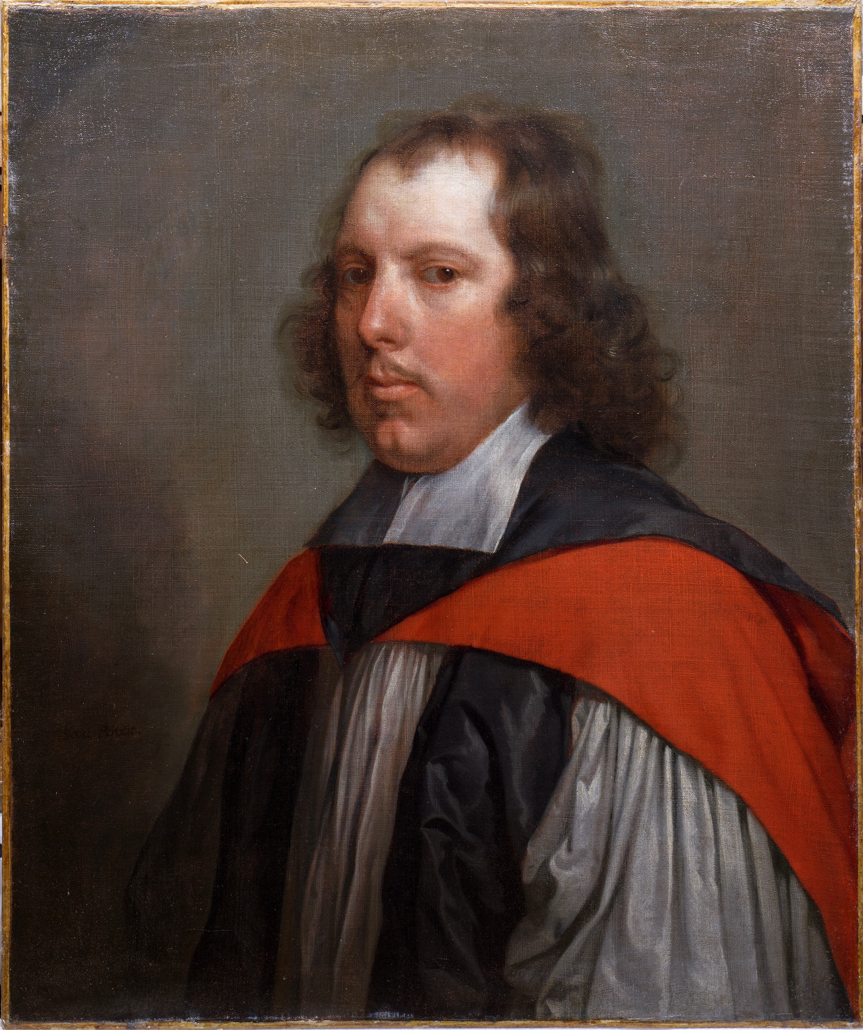 Portrait of Bishop Cartwright - by Gerard Soest